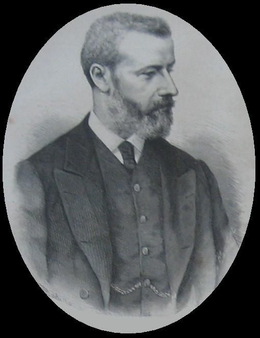 Spanish manufacturer Mr. Camilo Hurtado Amezaga.